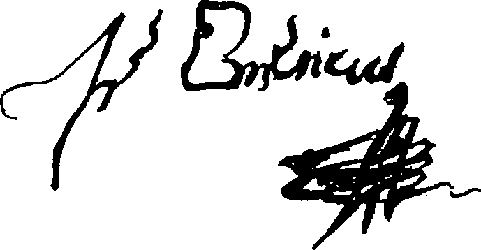 Signature of Imre Esterházy, archbishop of Esztergom.